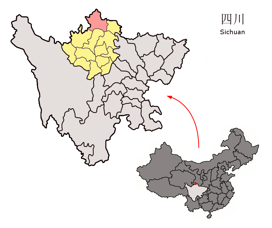 Location of Zoigê County (pink) and Ngawa Prefecture (yellow) within Sichuan province of China Map drawn in september 2007 using various sources, mainly : Sichuan province administrative regions GIS data: 1:1M, County level, 1990 Sichuan Counties map from